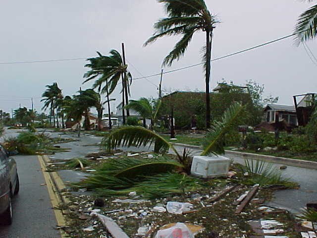 This image shows downed trees and property damage in Key West, Florida from Hurricane Georges in September of 1998.